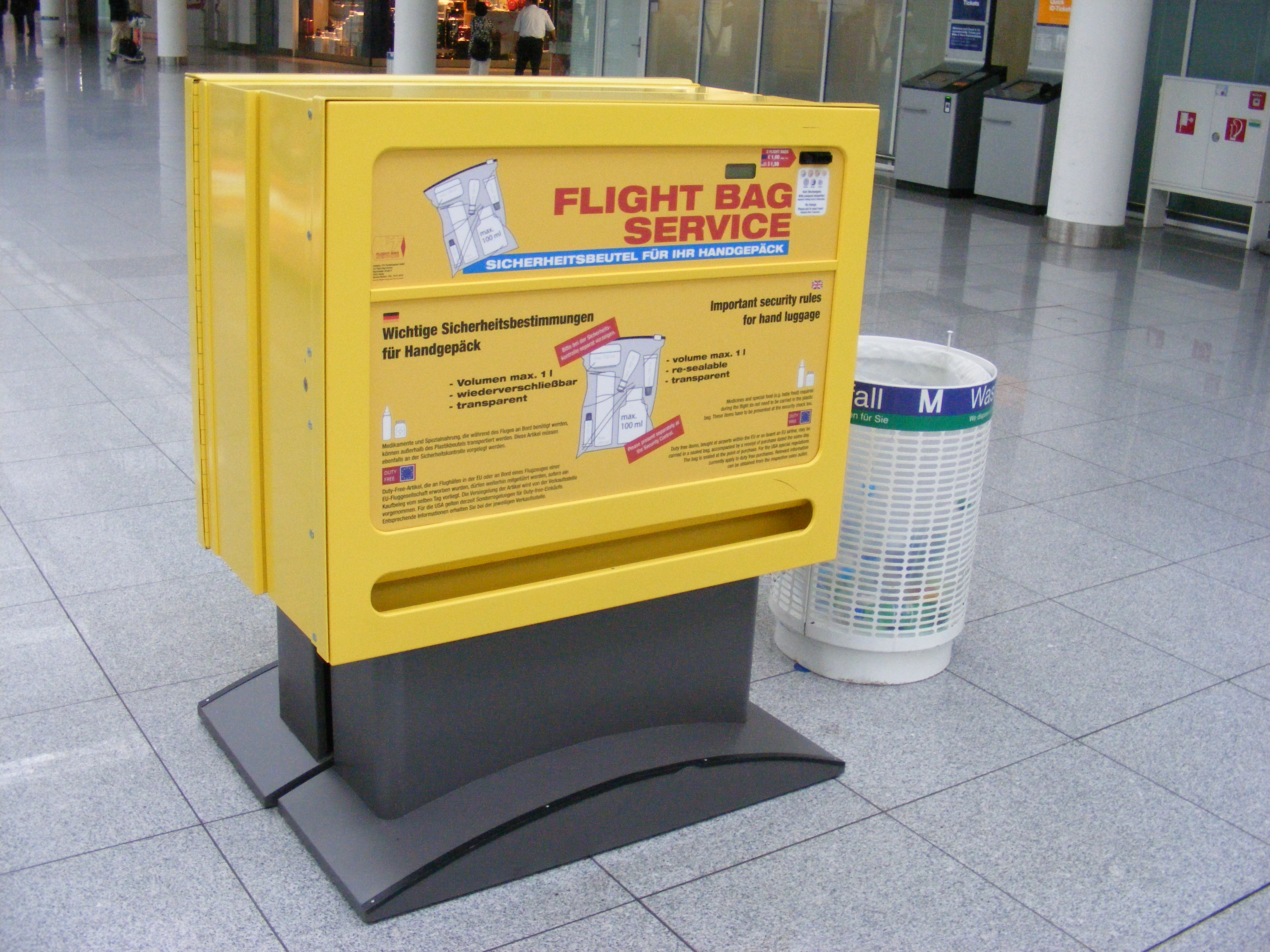 Munich international airport “Franz Josef Strauss”. Vending machine for carry-on luggage plastic bags at the entrance to the restricted area at Terminal 2.